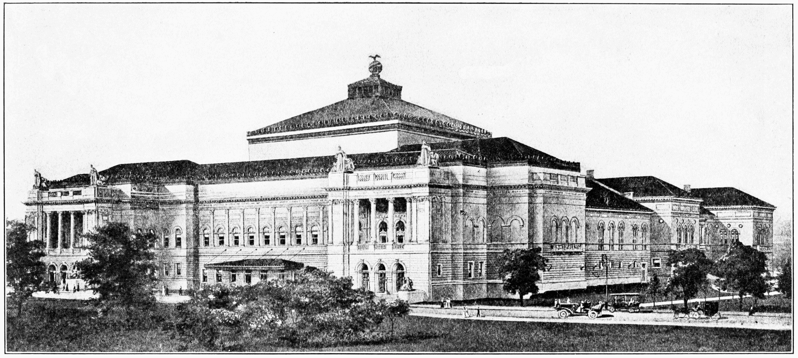 The Carnegie Institute